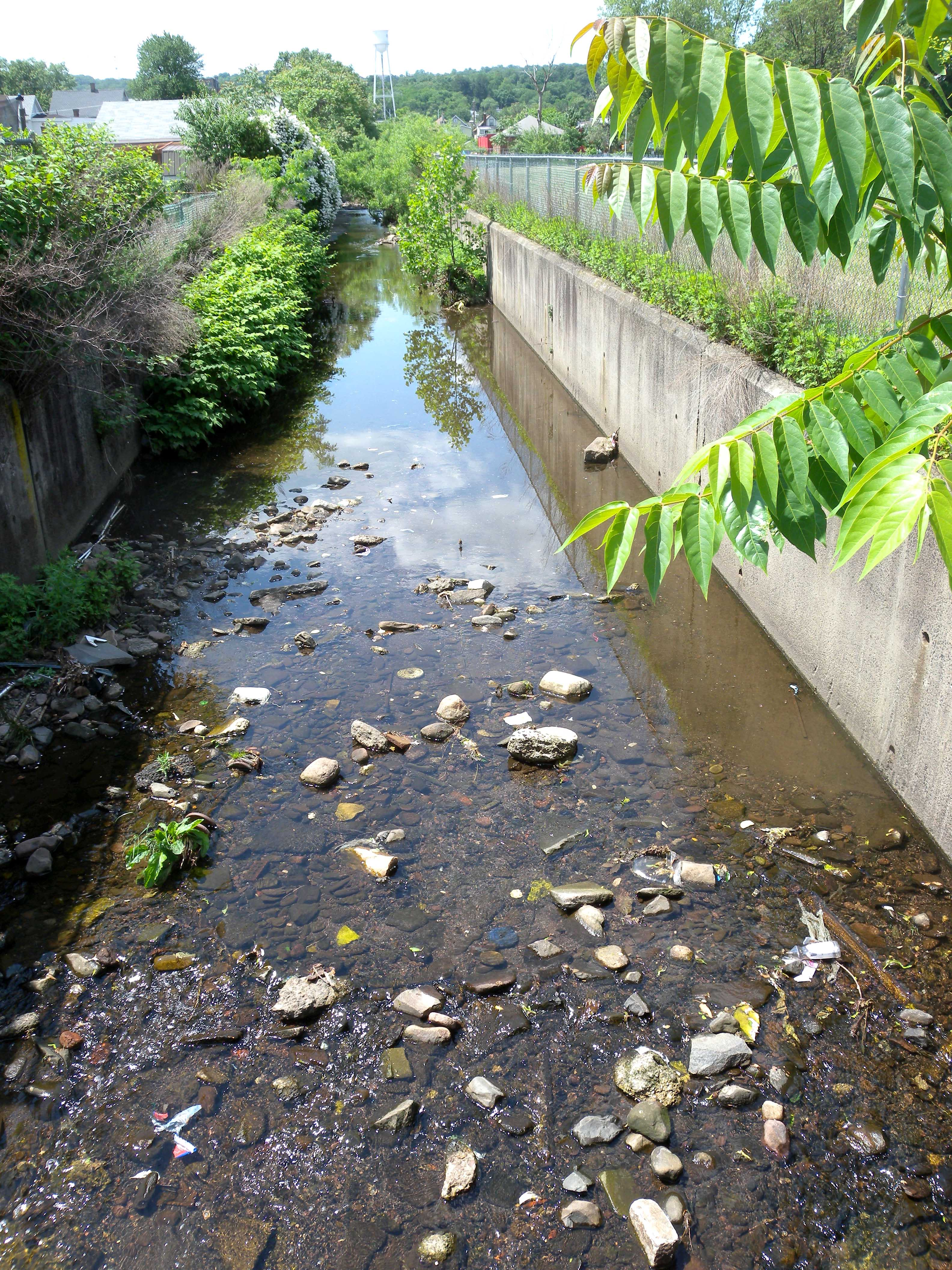 Looking northwest and upstream along the walled Second River, from High Street in the northwestern part of Orange, New Jersey on a mostly sunny midday.